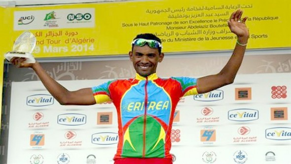 L'Erythréen Mekseb Debesay a remporté la 3e et dernière étape du tour international de Sétif